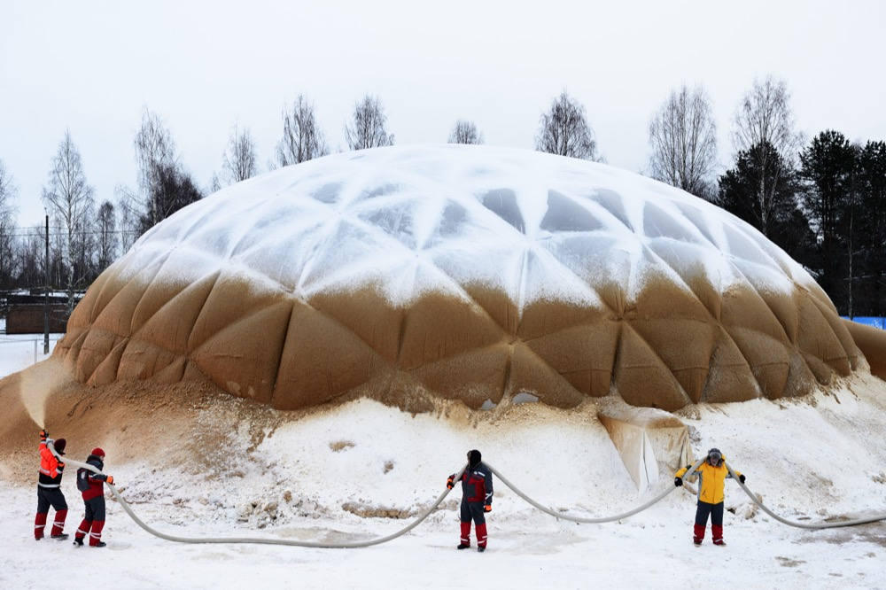 A pykrete ice dome is built in Juuka, Finland, by a team from Eindhoven University of Technology.